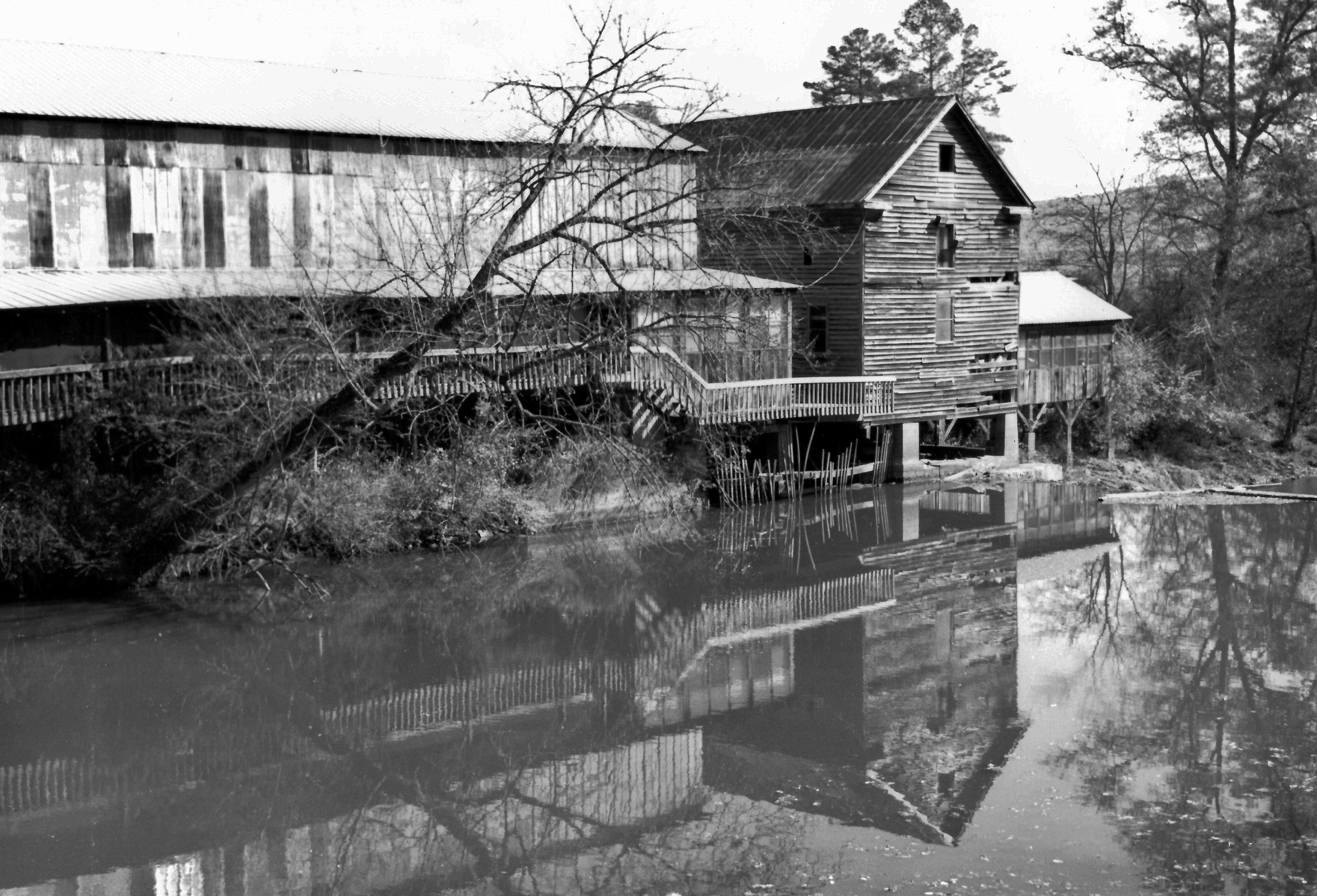 This is a high resolution scan of a silver gelatin print photograph that I took in 2003 of Butler's Mill in Graham, AL.